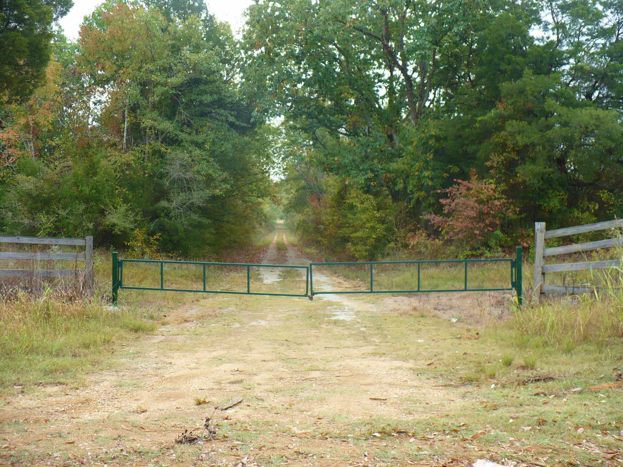 The entrance gate to Roseland Plantation, near Faunsdale, Alabama, United States. The plantation house was built in 1850 and added to the National Register of Historic Places on January 20, 1994. The house has since been destroyed.